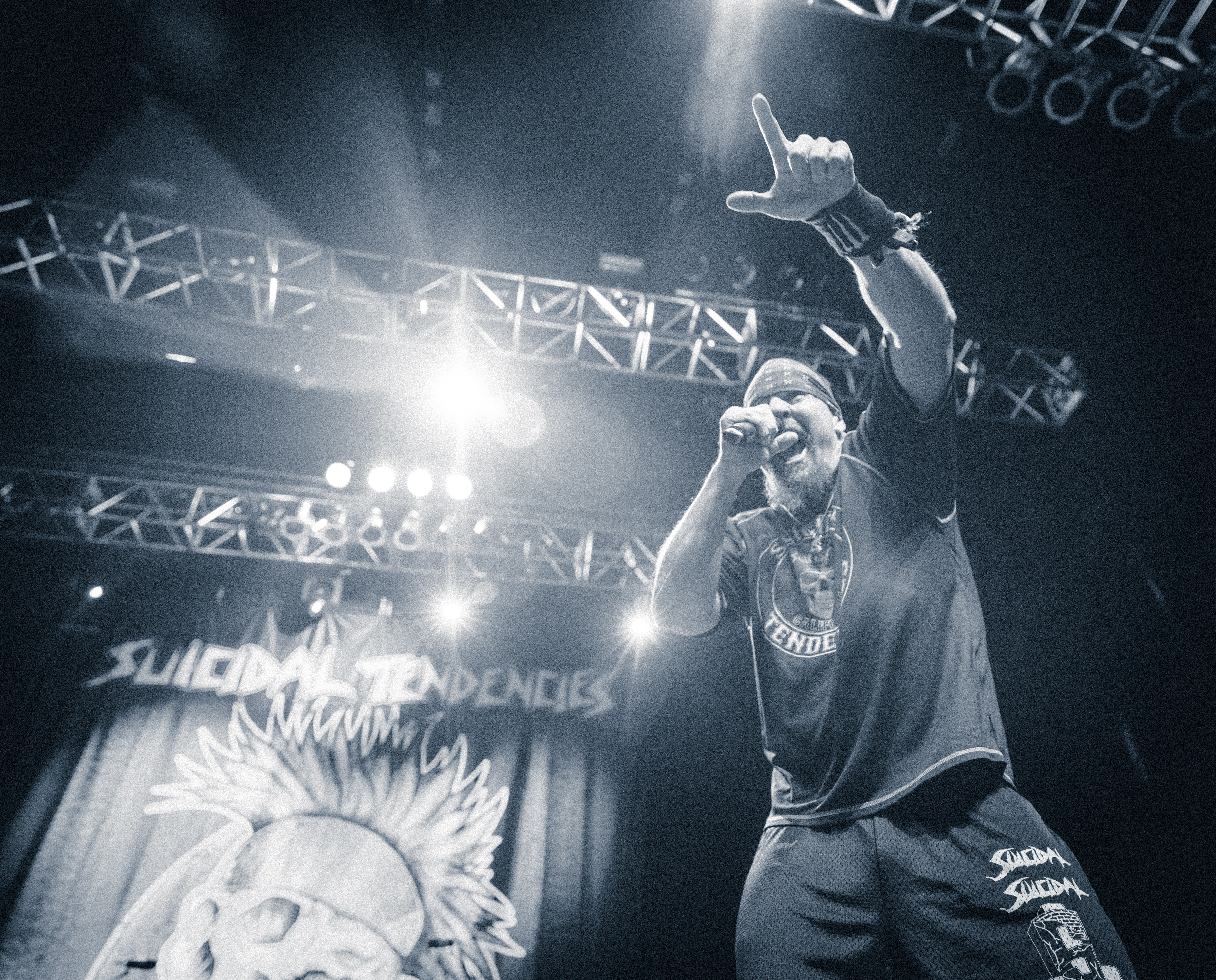 Mike Muir at House of Blues in Boston, 9/7/2018. Photo by Matthew Tieuli